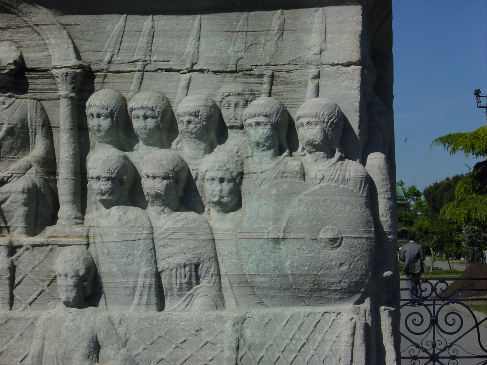 A face of the Theodosius I obelisk in Istanbul/Constantinople.